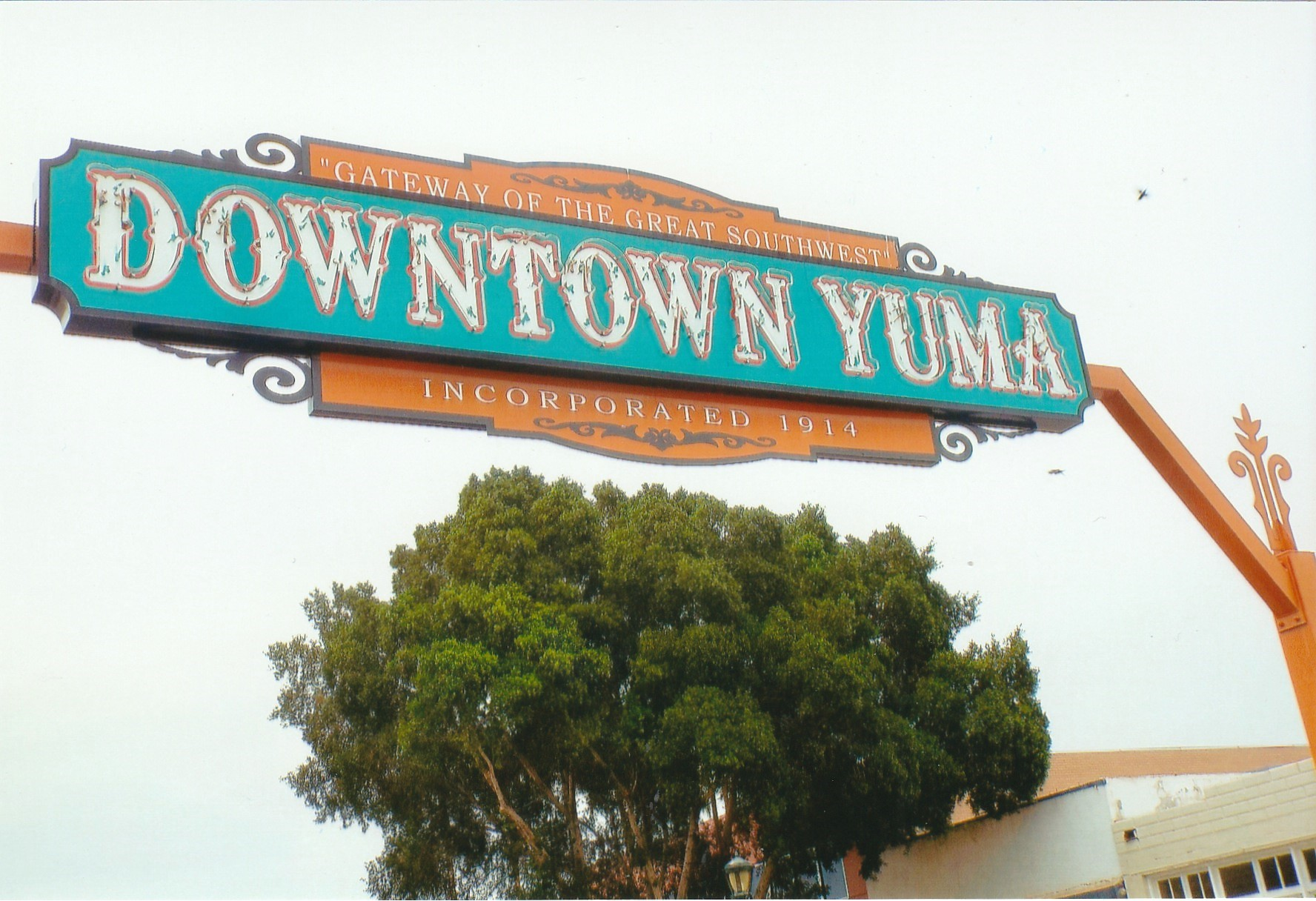 Welcome to the Downtown Historic District sign in Main Street Yuma